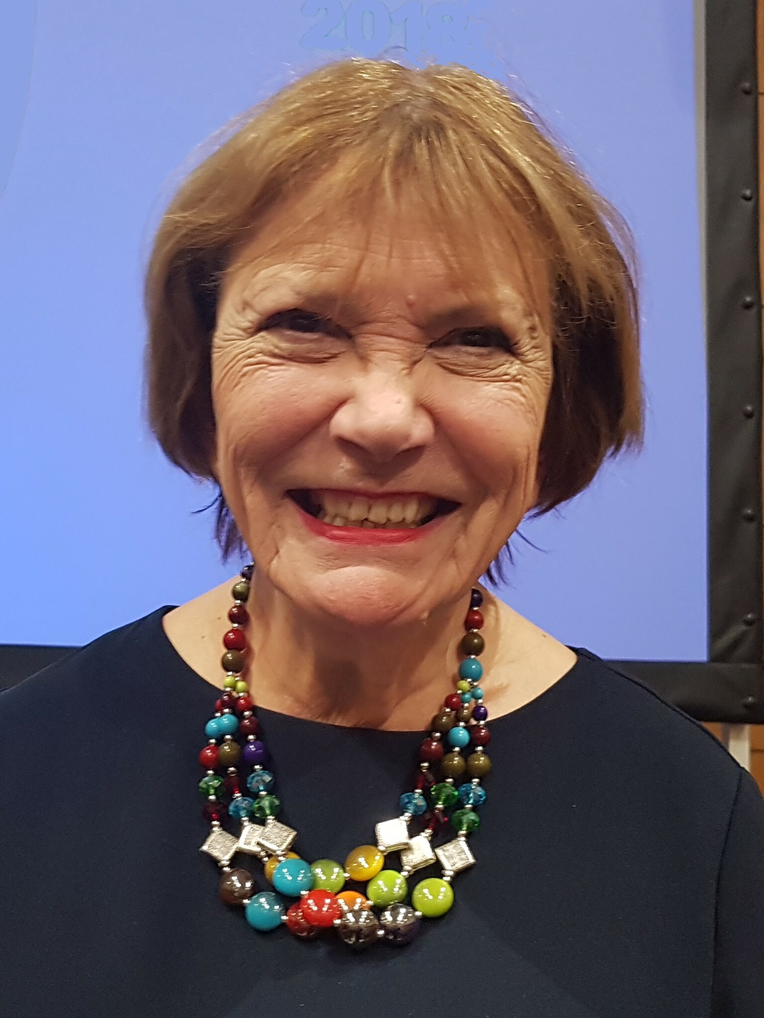 The Right Honourable Joan Dawson Bakewell, Baroness Bakewell, Dame Commander of the Most Excellent Order of the British Empire, Honorary Fellow of the British Academy